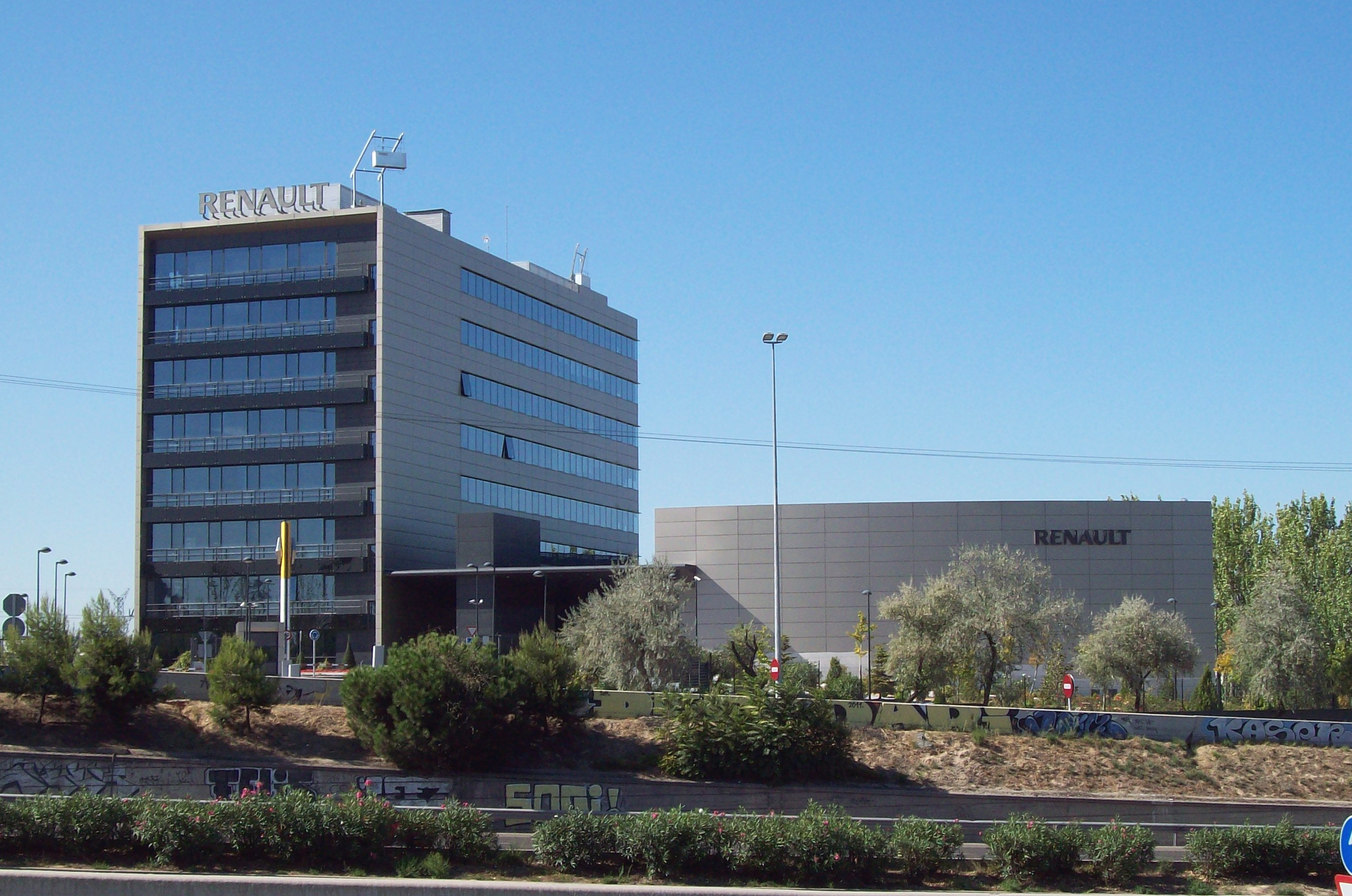 View of Renault offices in Madrid (Spain).